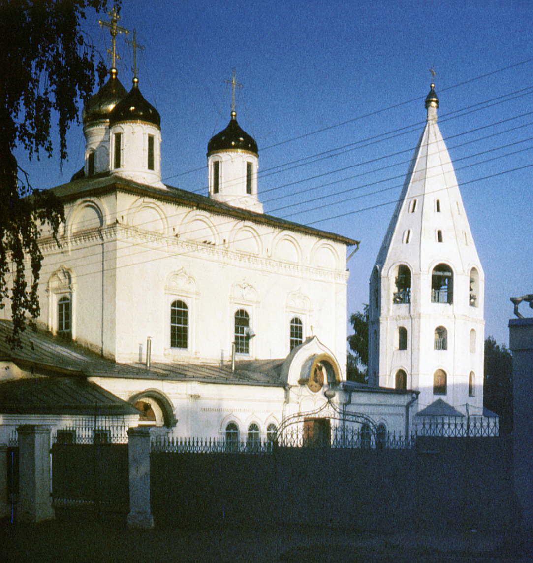 Cathedral of the Blessed Virgin Presentation